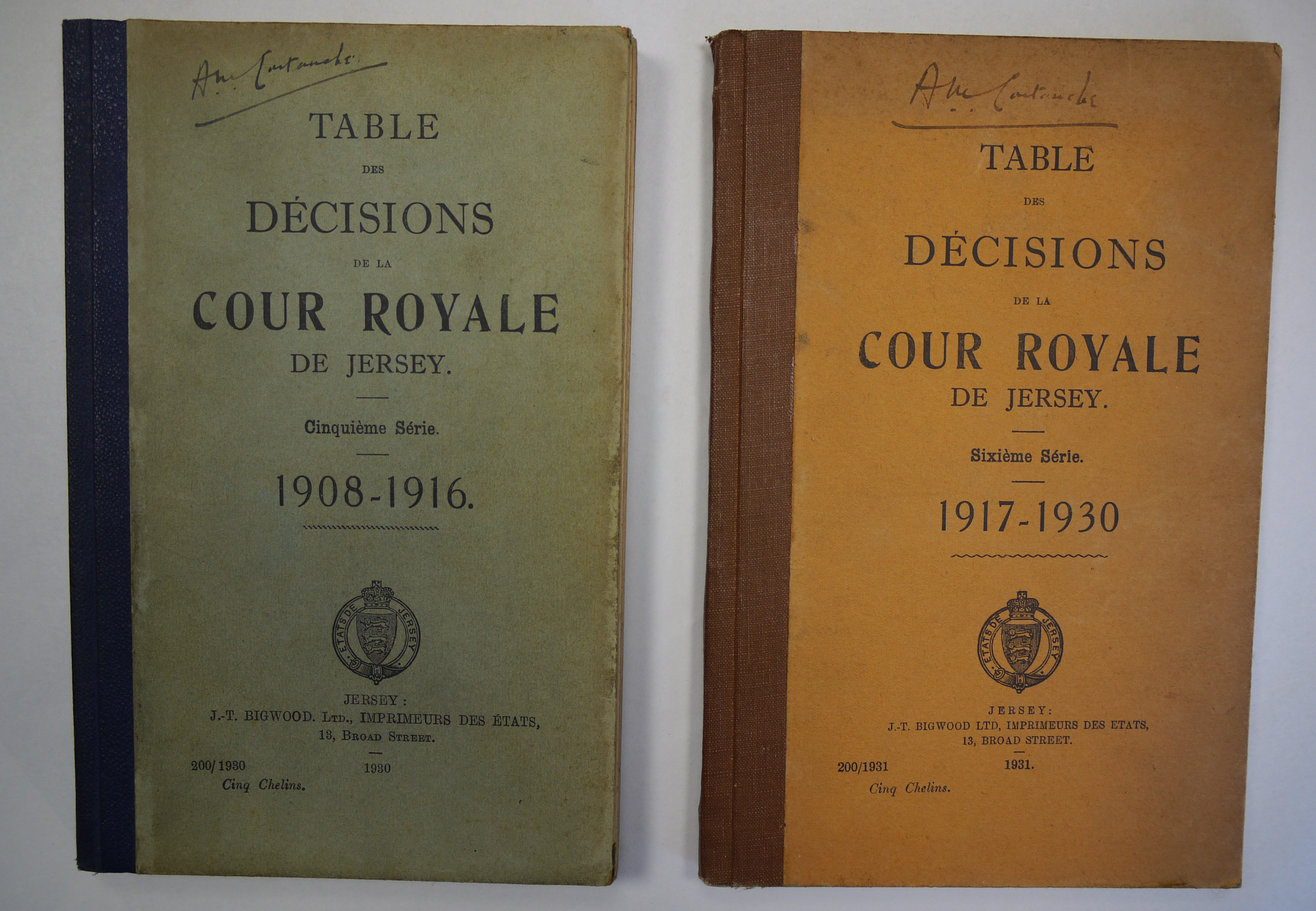 Two "Tables de Décisions" of the Royal Court of Jersey: systematic indexes and tables of judgments between 1885 and 1978